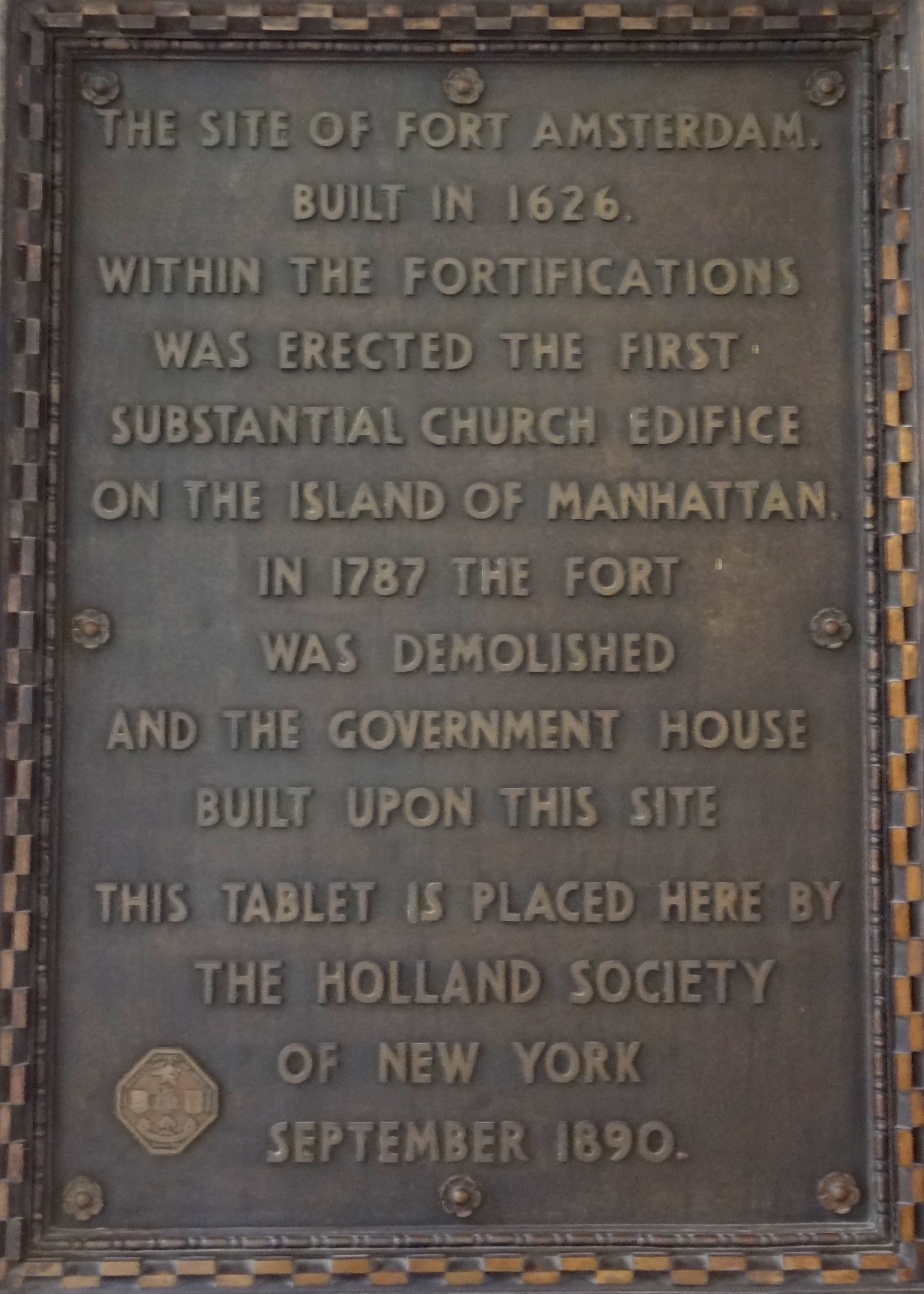 Commemorative tablet noting that the Government House in New York City was built on the site of Fort Amsterdam. It was installed in 1890 by the Holland Society of New York and is now located in the Alexander Hamilton U.S. Custom House. Note: Year of demolition should be 1790, not 1787. See reference.